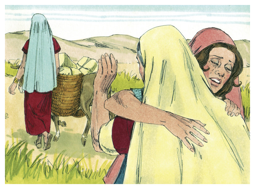 Biblical illustration of Book of Ruth Chapter 1